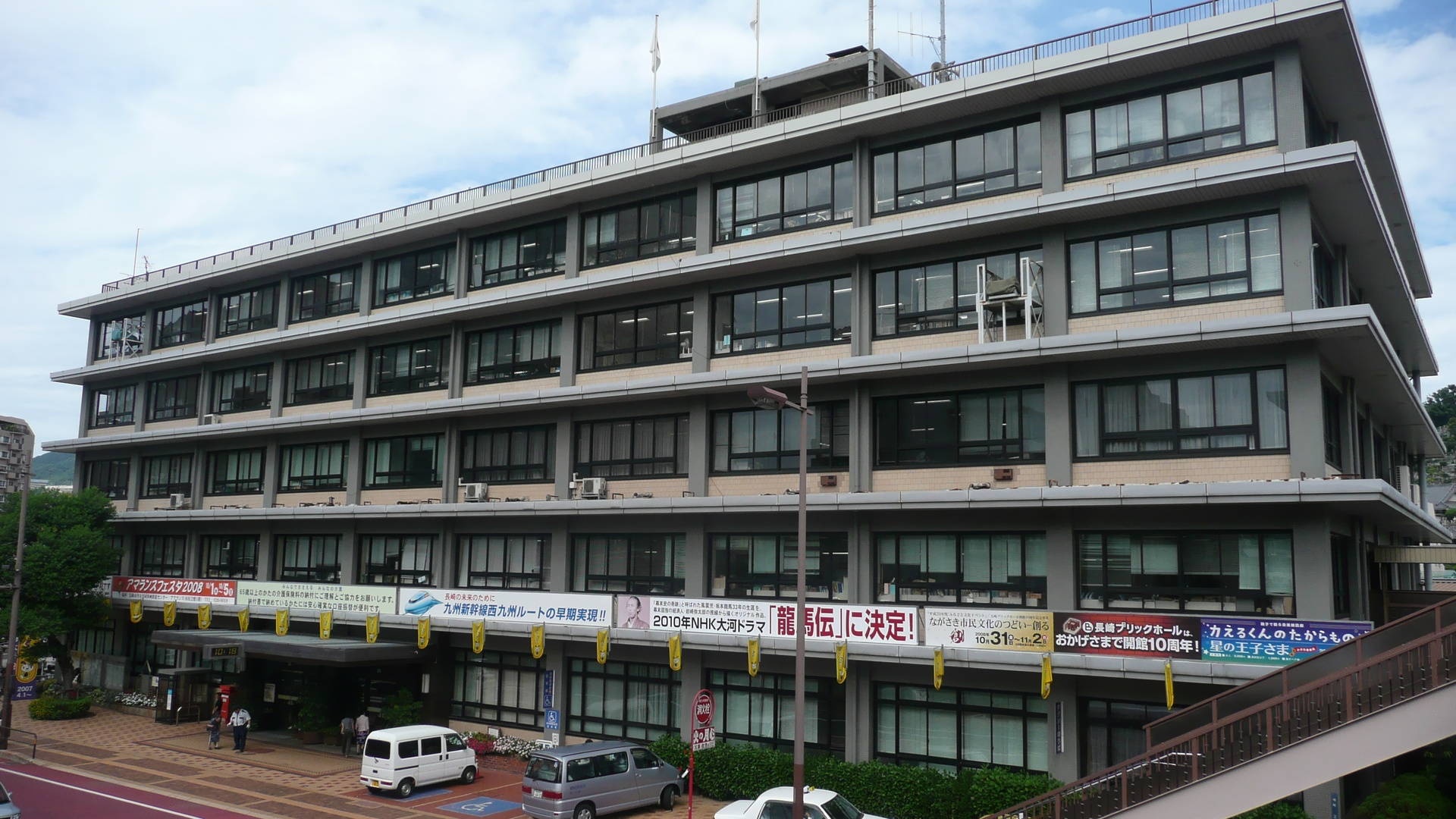 Nagasaki City Office Main Building (September, 2008)